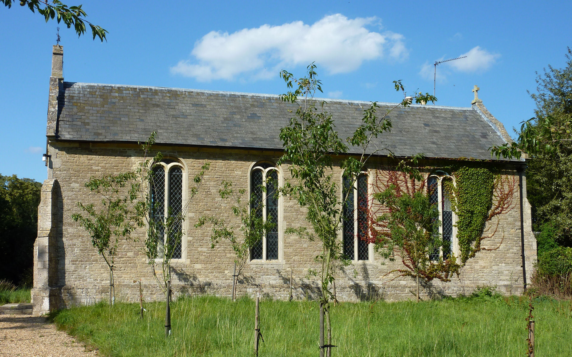 Chapel and Schoolhouse, Ashton, East Northamptonshire